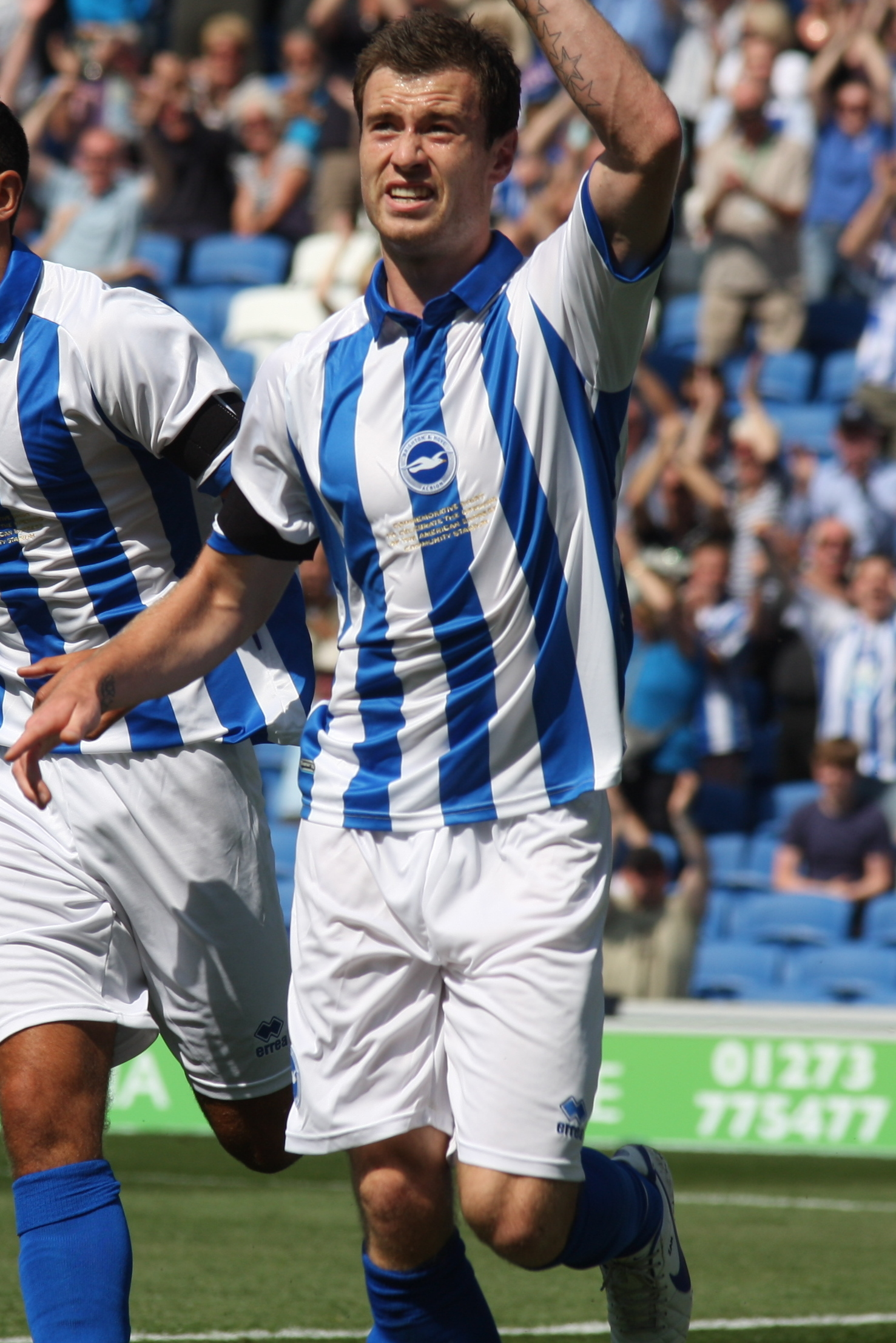 Brighton v Spurs Amex Opening 30/7/11